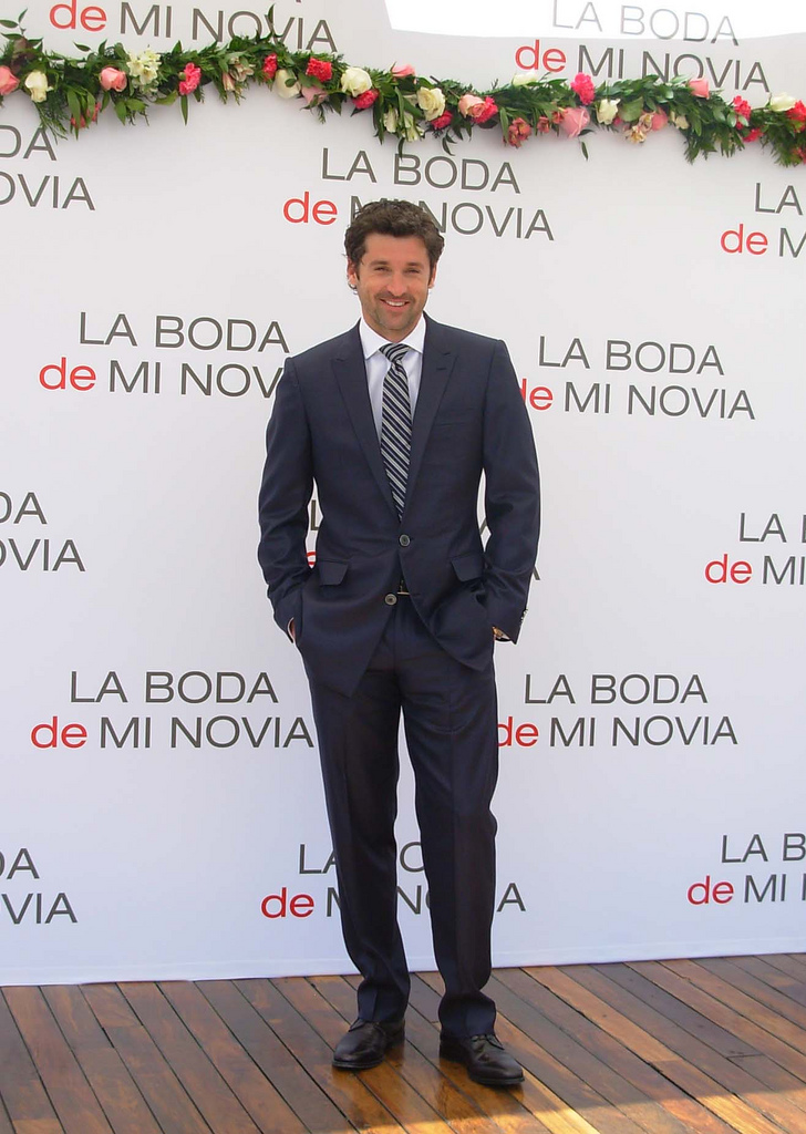 Patrick Dempsey at the presentation of the film Made of Honor in Madrid (Spain).